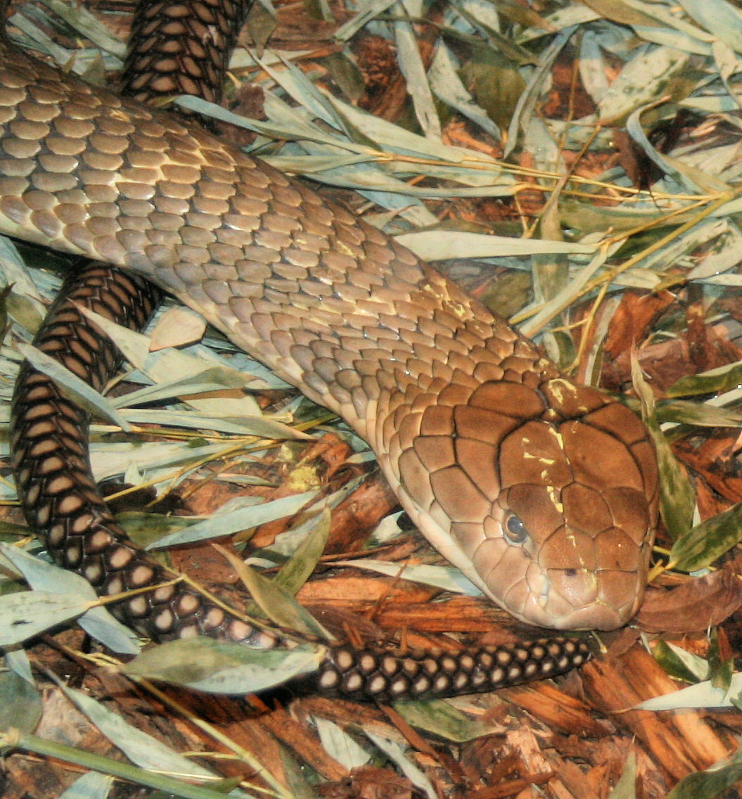 King Cobra